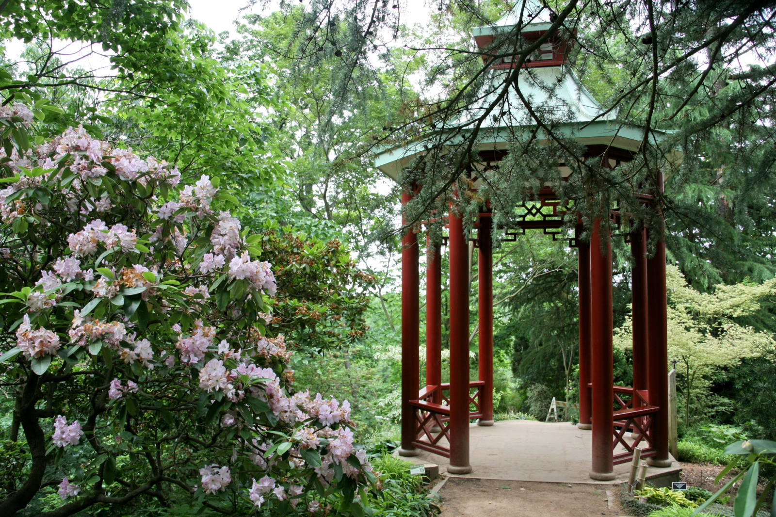 Some of the Asian Collections are very old, while others are new additions. The earliest plantings took place in 1949. The Garden Club of America donated the funds to construct a plaza at the top of Asian Valley and develop extensive plantings of representative Asian flora in 1963. The red pagoda, which is styled after a Chinese pagoda, was also constructed with funds donated by the Garden Club of America. The present structure, reconstructed in 1996, sits atop a knoll on the ridge that separates China Valley and Asian Valley and provides a panoramic view of Asian Valley, China Valley, and the Anacostia River.